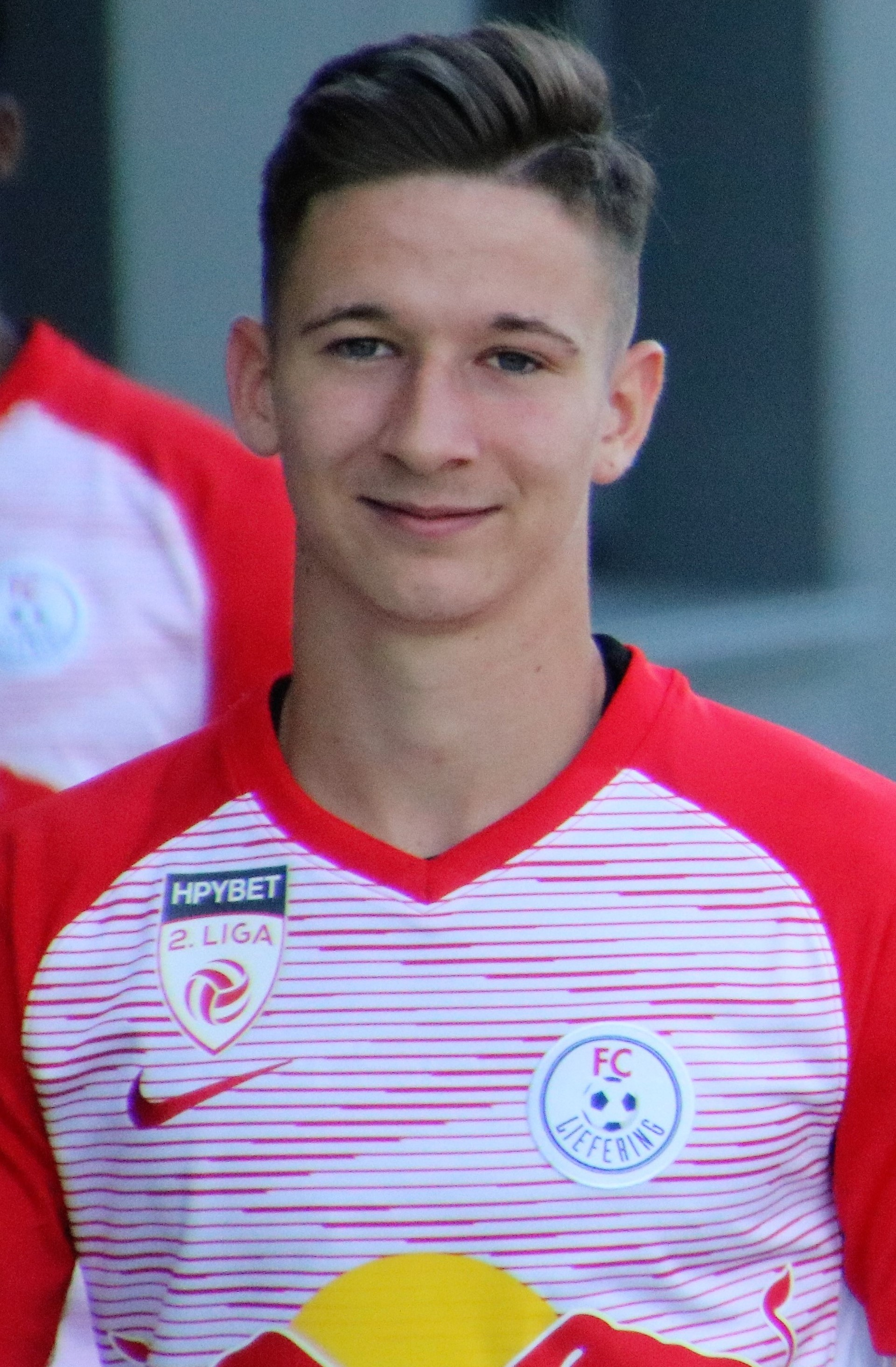 Cut out from FC Liefering gegen SV Grödig (Testspiel 16. Juli 2019) 13.jpg